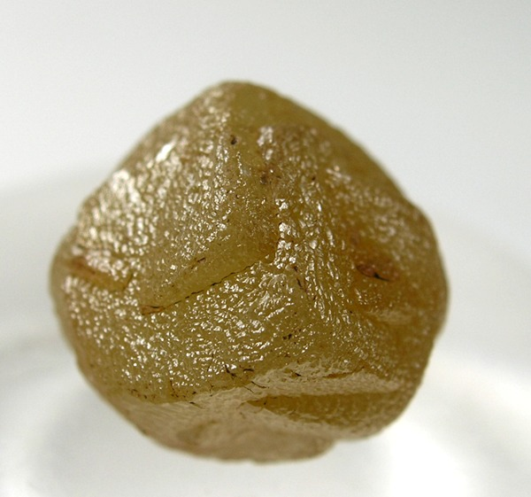 Diamond Locality: Miba Mine, Mbuji Mayi (Bakwanga), Kasaï-Oriental, Democratic Republic of Congo (Zaïre) (Locality at ) A stunning, bright yellow diamond crystal composed of penetration- twinned cubes intergrowing with each other. The overall effect is striking. It is complete all around. Old specimen ex. Gilbert Gauthier stock (which is where the unusually good locality data came from) 1.5 x 1.3 x 1.1 cm (25.2 carats)